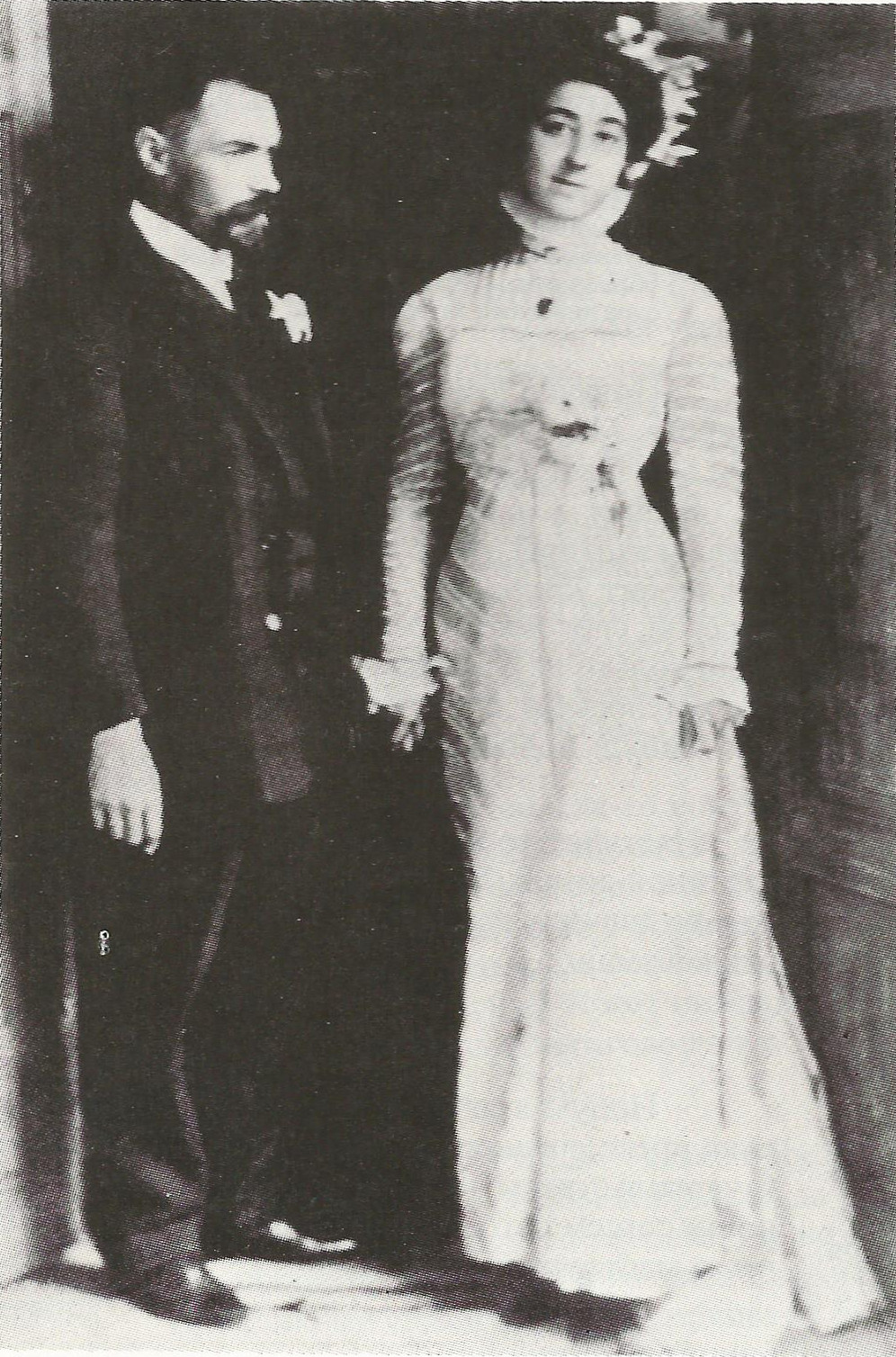 Kuzma Petrov-Vodkin with his wife. Khvalynsk. 1910